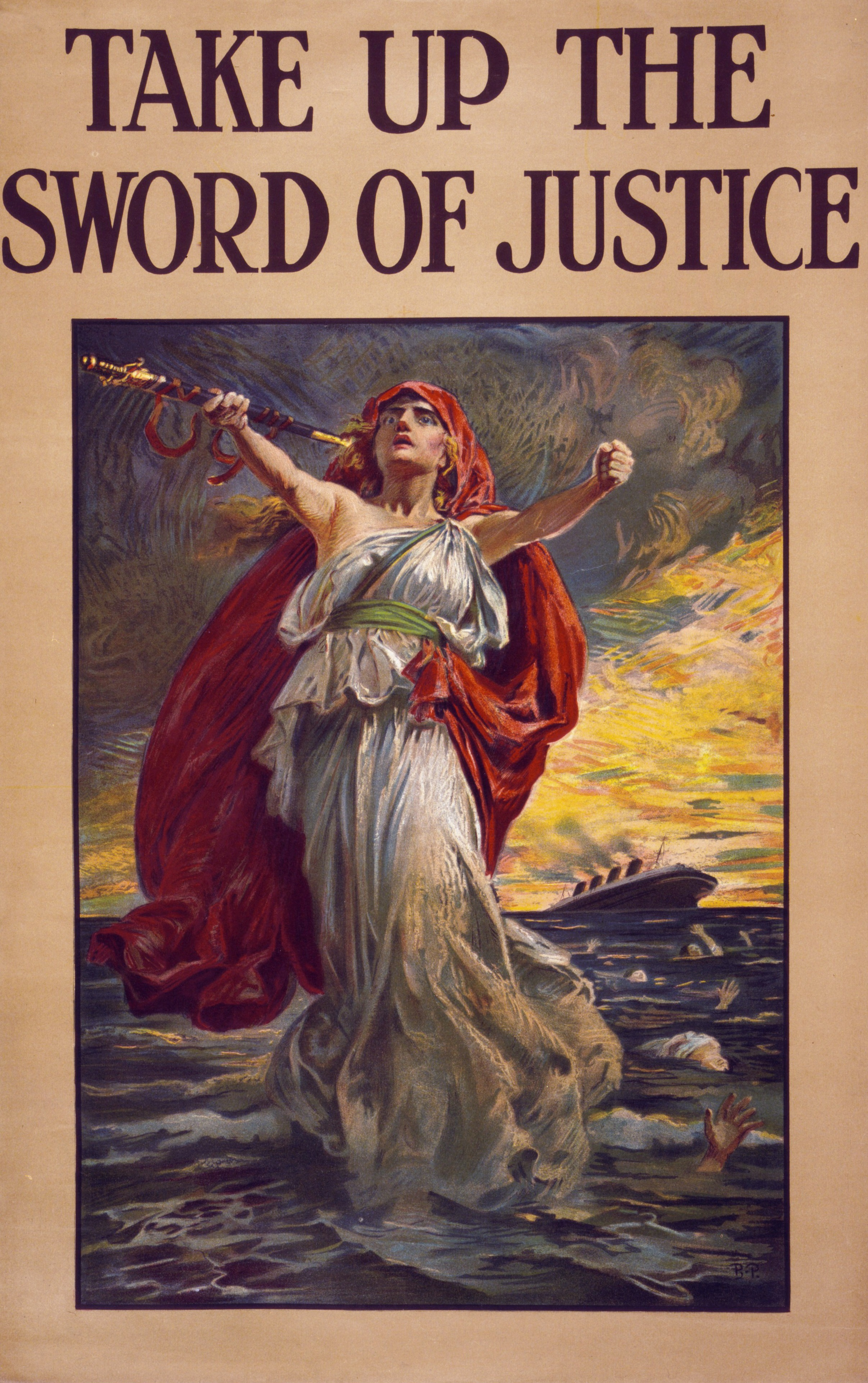 Title: Take up the sword of justice Abstract: Poster shows a classical figure, with arms raised, holding a sword. The figure is surrounded by drowning people and in the background the oceanliner Lusitania is sinking. Physical description: 1 print (poster) : lithograph, color ; 100 x 63 cm. Notes: B.P.; Title from item. Poster number 105 from the Parliamentary Recruiting Committee